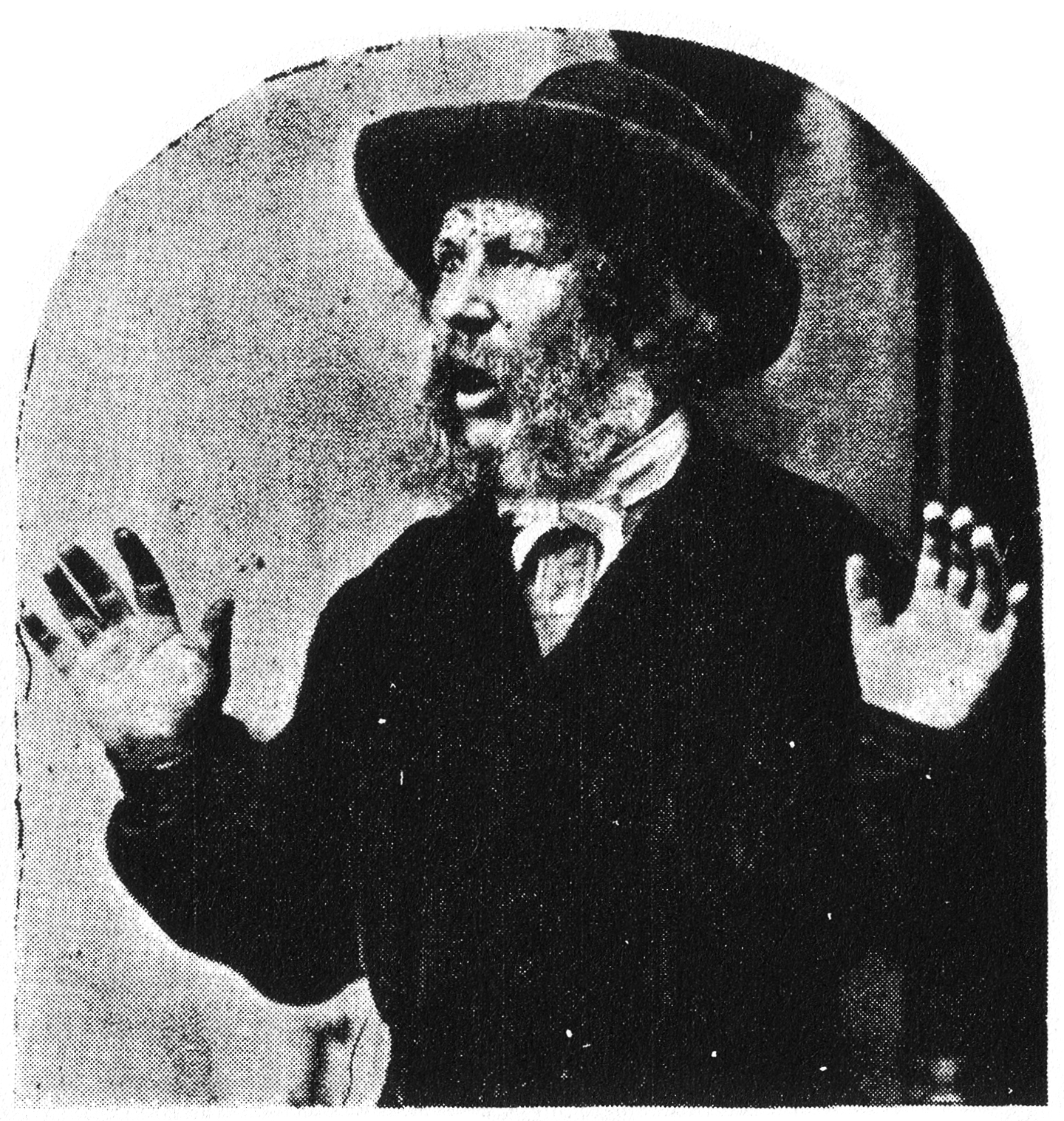 Plate VII from Charles Darwin's The Expression of the Emotions in Man and Animals. From Chapter XII: Surprise—Astonishment—Fear—Horror. See also figure 20 and figure 21, by Duchenne. Picture 2 is from Guillaume Duchenne (see e.g. Image:Duchenne de Boulogne 3.jpg) - First part